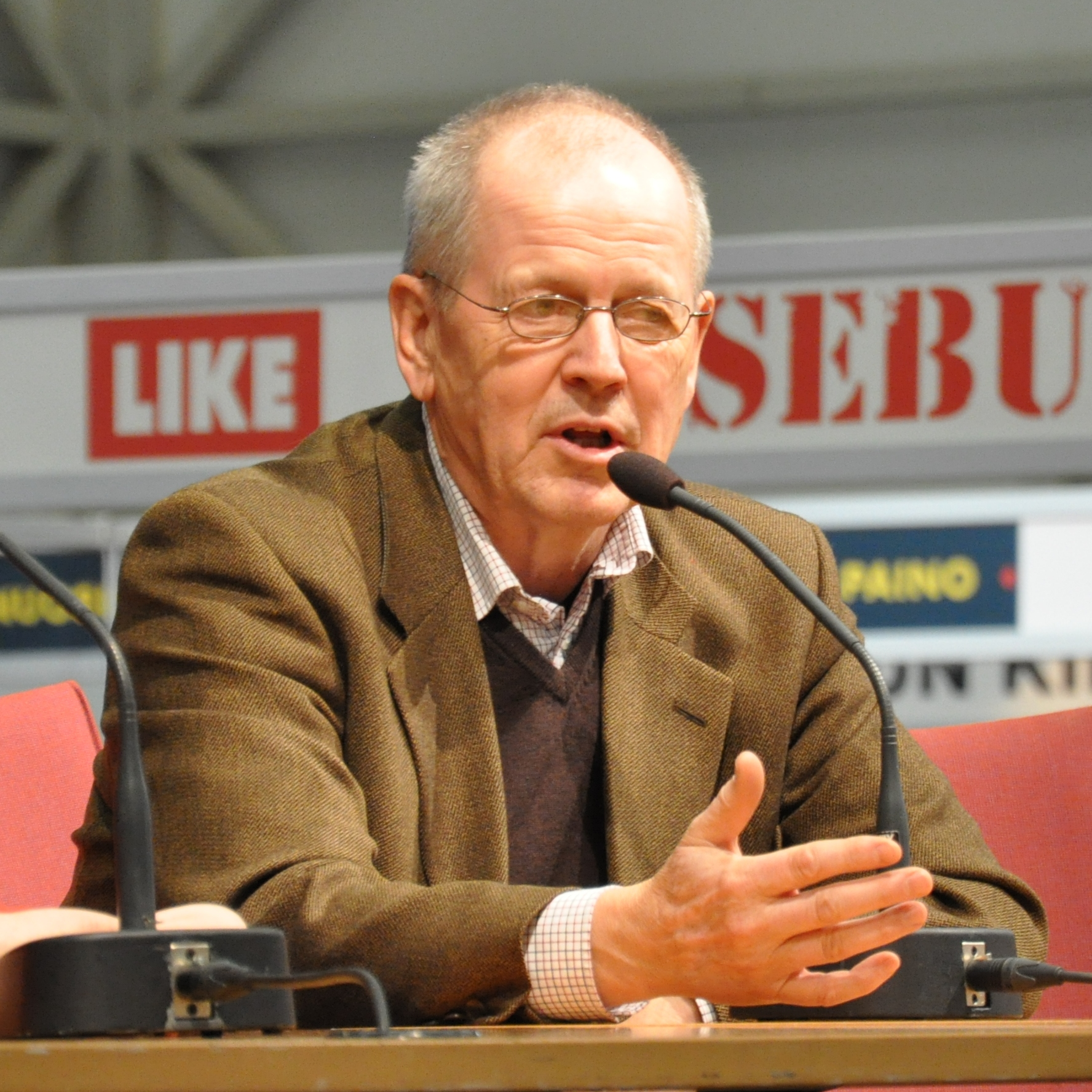 Finnish writer Antti Tuuri at the Turku Book Fair 2009.